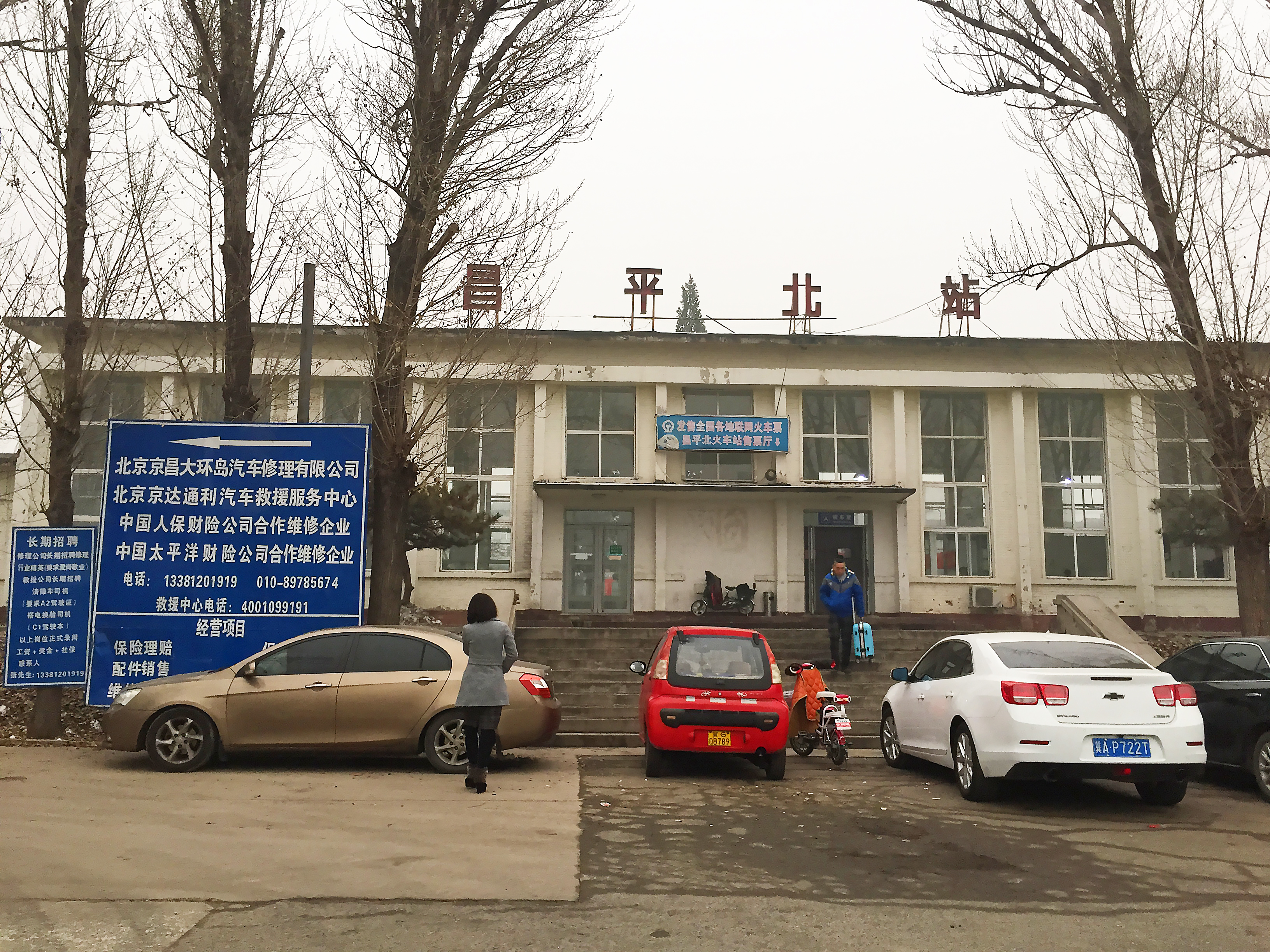 Taken in the haze of terror.